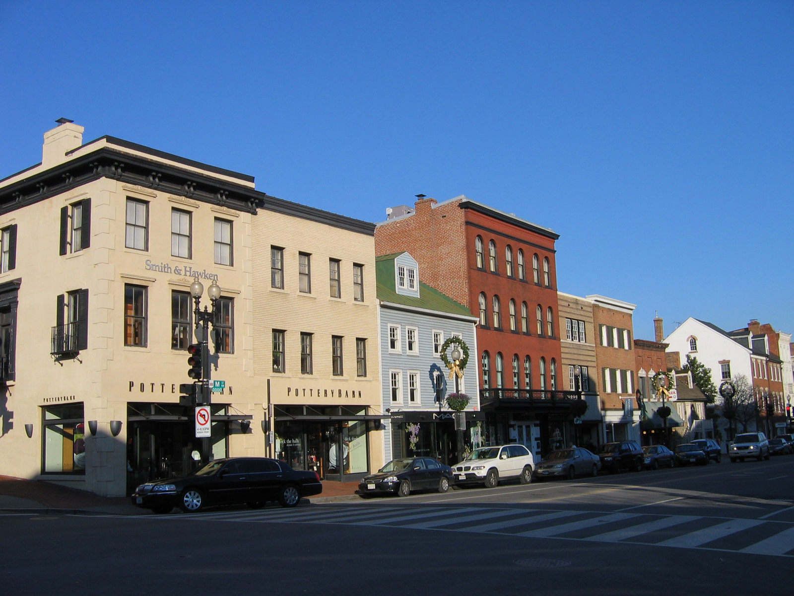 Shops along M Street in Georgetown, at 31st Street, in Washington, D.C. Photo taken by Kmf164 on December 6, 2005.